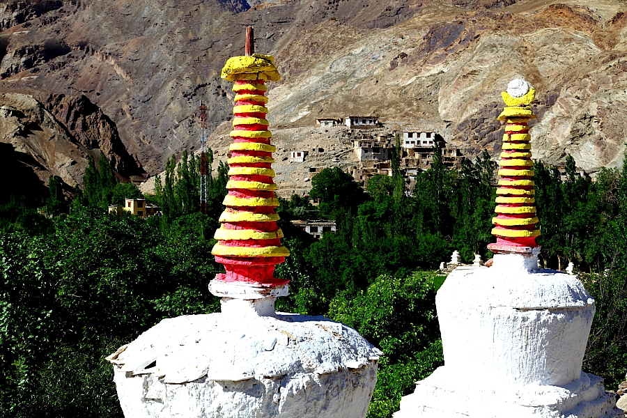 Buddhism in Batalik sector.